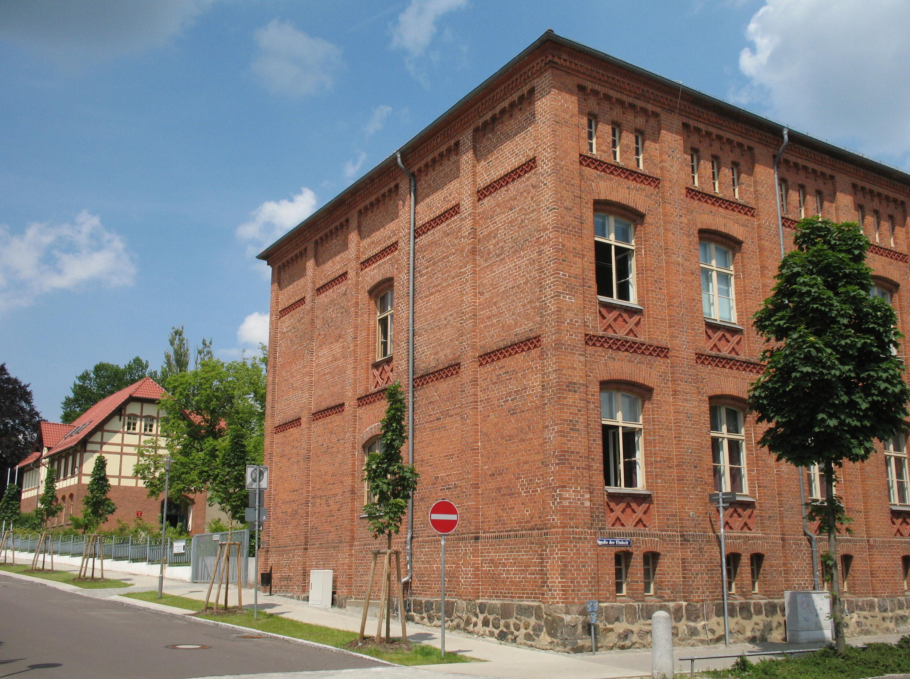 School buildings in Bad Belzig in Brandenburg, Germany